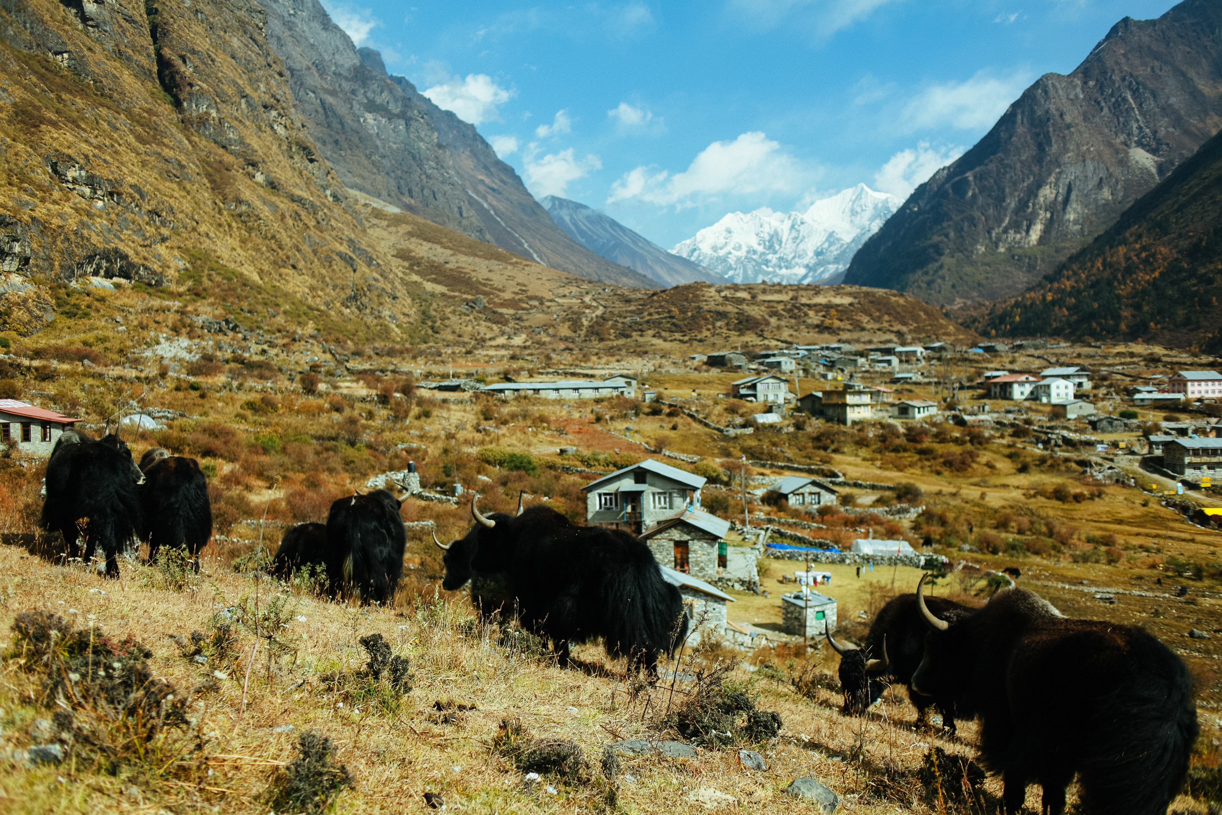 View on Langtang village before earthquake 2015, when it was totally destroyed by the landslide.